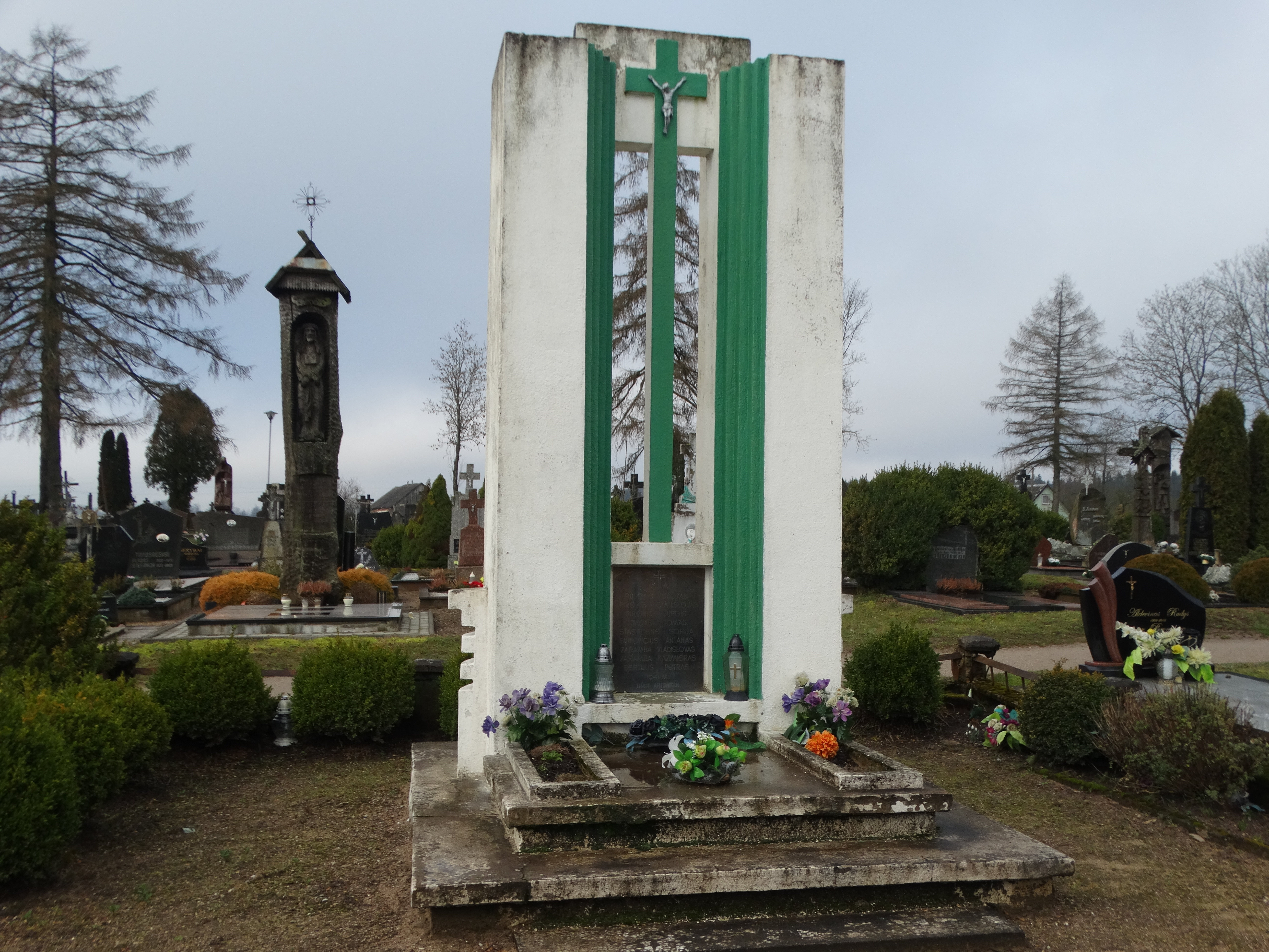 Cemetery monument, Kvėdarna, Šilalė District, Lithuania